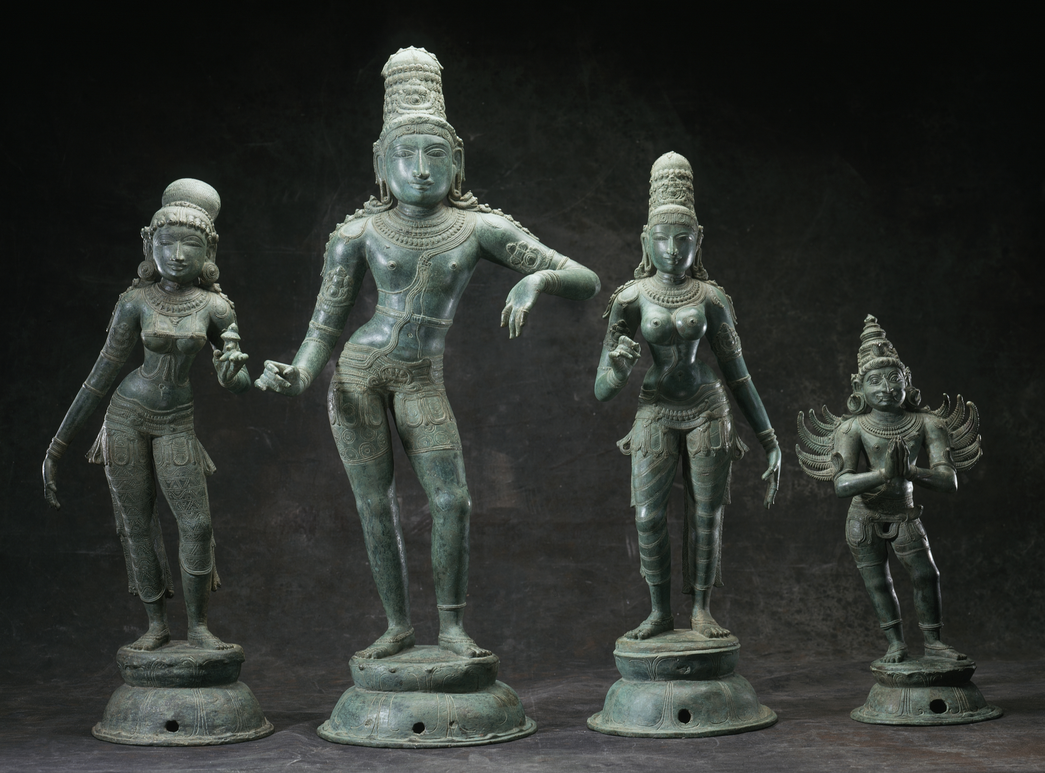 "Krishna Rajamannar with His Wives, Rukmini and Satyabhama, and His Mount, Garuda, late 12th-13th century"